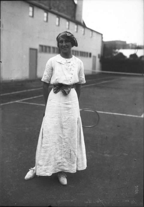 French tennis player Marguerite Broquedis